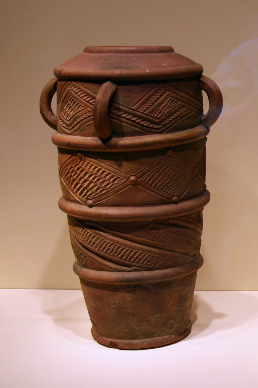 Grave object (dibondo), Kongo peoples, Democratic Republic of the Congo Kongo women handbuilt the majority of domestic pottery, but male Kongo potters fashioned pipes and bowls for calabash water pipes and vessels with animal and human figures that they sold to outside markets. On occasion, men were observed creating water and cooking vessels for local use. More significantly, men produced important ritual pottery, including Kongo grave objects, the tall, hollow, open-based cylindrical terracotta forms known as mabondo. Although 17th-century Europeans described terracottas on Kongo graves that may be linked to mabondo, more recent scholarship suggests that the form originated in the 19th century. Wealthy Kongo commissioned mabondo to commemorate the dead. They were often highly decorated with figures or incised and impressed motifs. The diamond motifs with bosses at the corners of this vessel probably represent the journey the Kongo believe humans must take when they die, traveling between the land of the living and the land of the dead. Production ceased in the 1930s. Kongo men and women employed similar methods to create their vessels, but the men had exclusive use of some implements. For example, male potters sometimes handbuilt their vessels on turntables made of wood or clay. The turntable was attached to a wood plank which was fixed to the ground with a long spike or a small piece of wood, a stone or a clay pivot. Assistants turned the devices with their hands or if the edges of the turntable were serrated, the potters manipulated them with their feet. They then fired their vessels in the open.